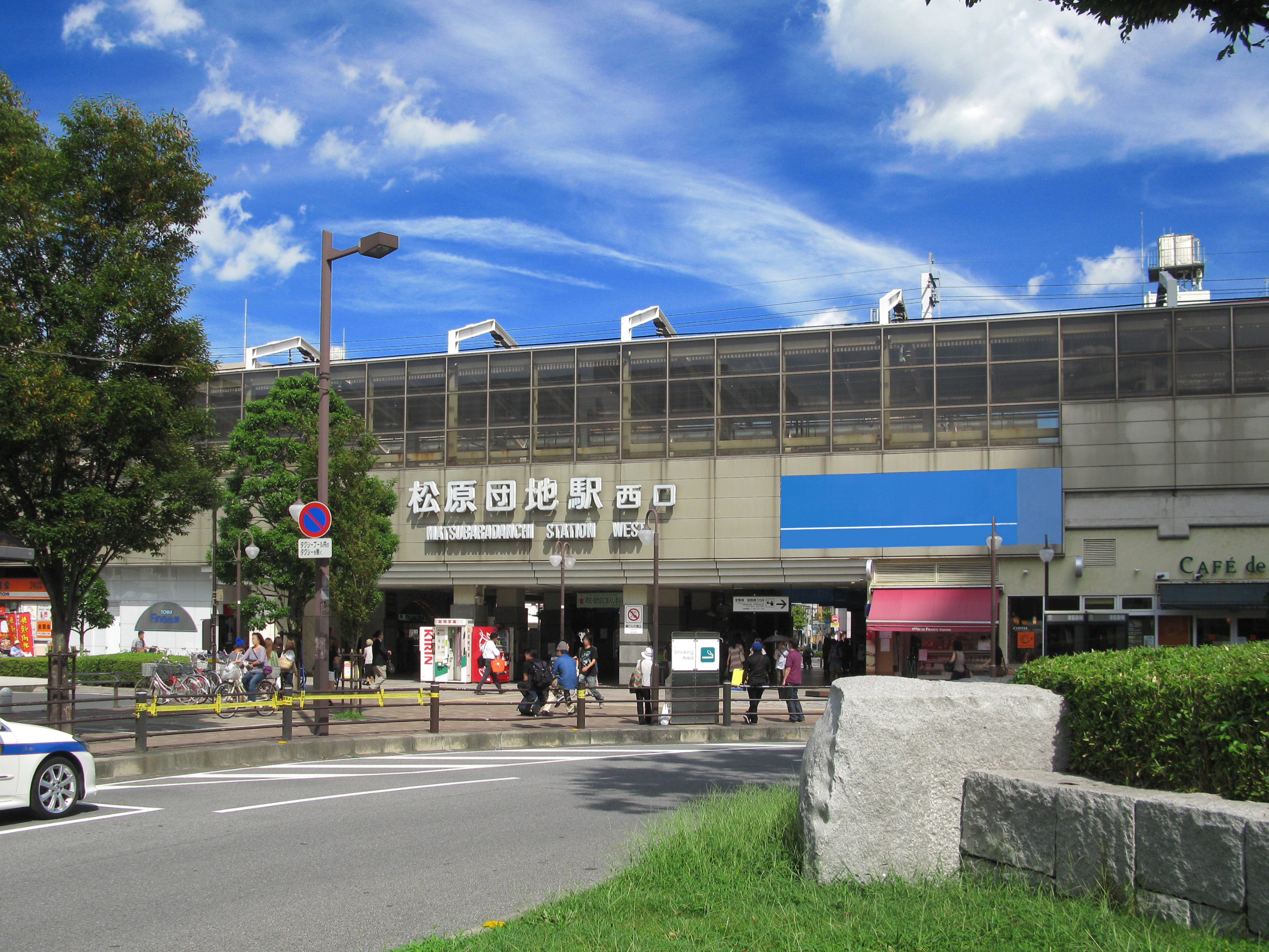 The west side of Matsubaradanchi Station in Sōka, Saitama, Japan